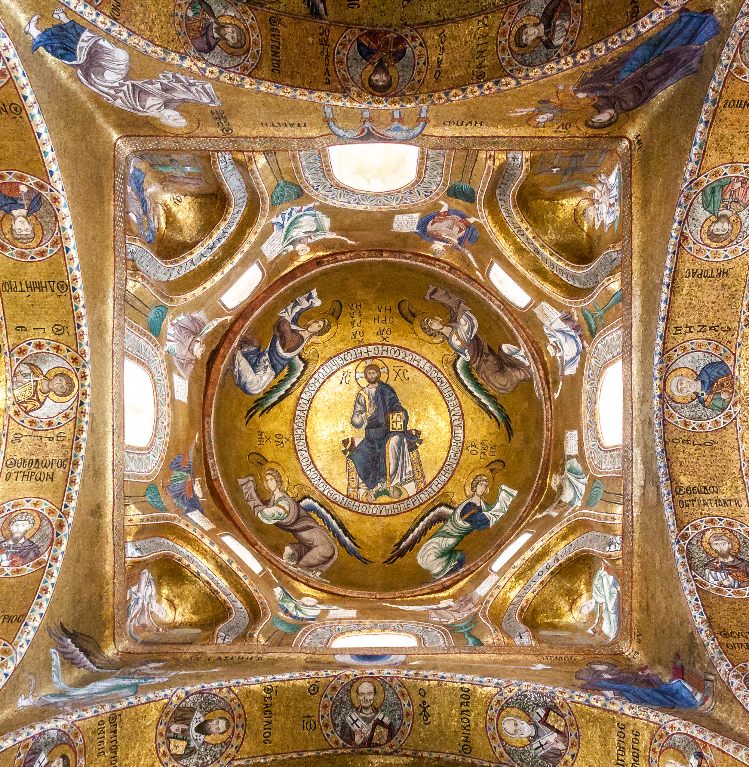 La Martorana, also known as Santa Maria dell'Ammiraglio (Saint Mary of the Admiral), is a church in Palermo (Sicily, Italy). The church is annexed to the next-door church of San Cataldo and overlooks the Piazza Bellini in central Palermo.